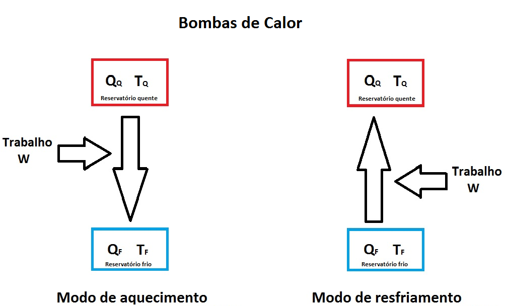 Bombas de Calor